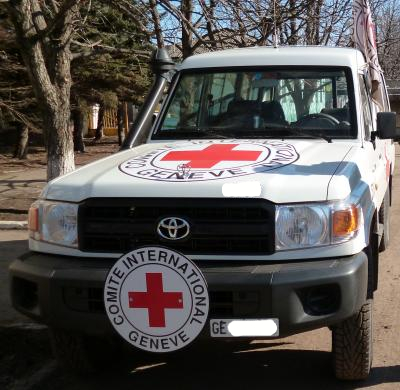 Car ICRC in Ukraine.